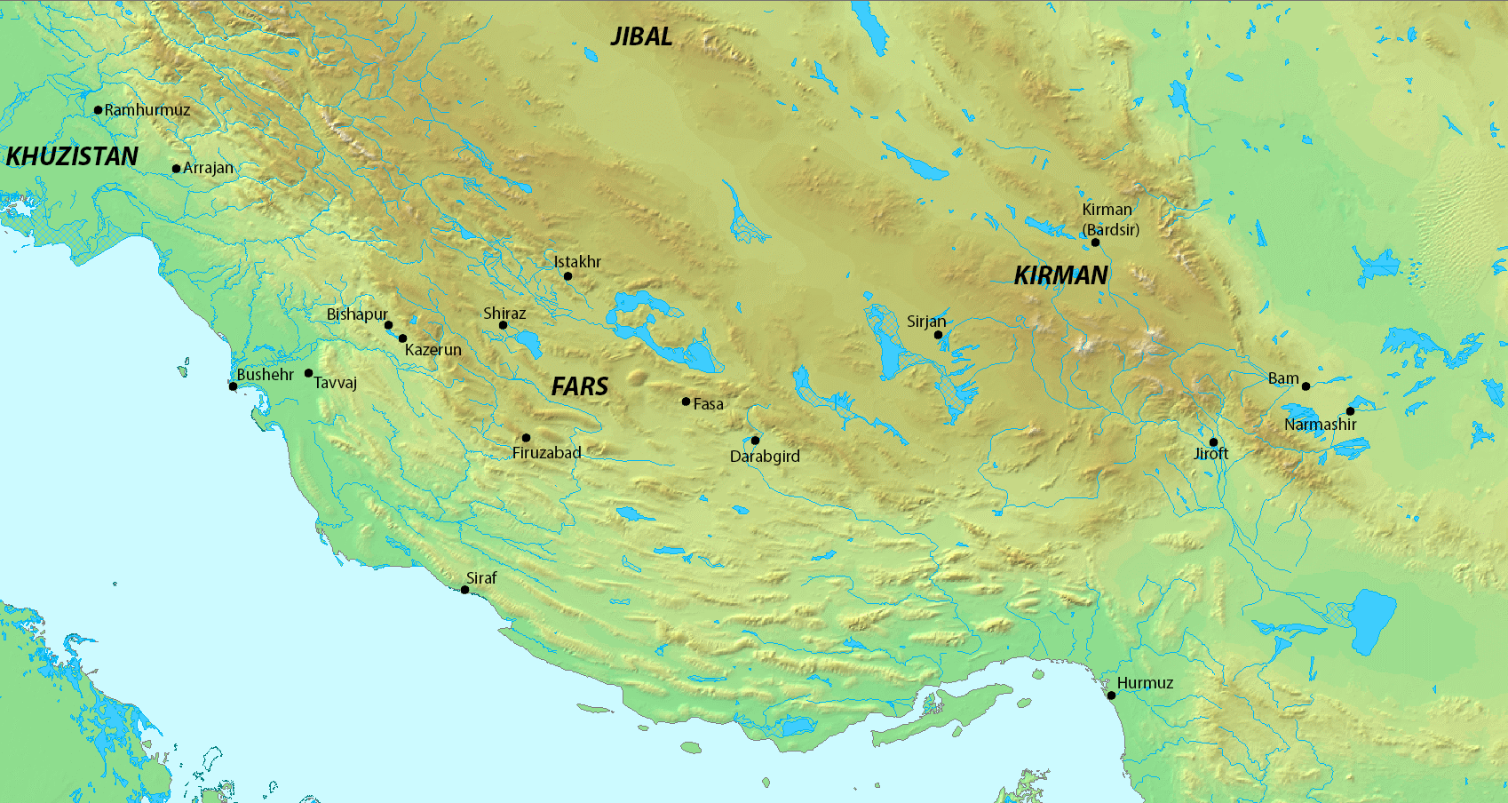 Map of Fars and its surrounding regions. Map taken from DEMIS Mapserver, which is public domain, the rest is self-made.